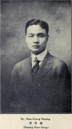 Huang Hanliang (born 1892)